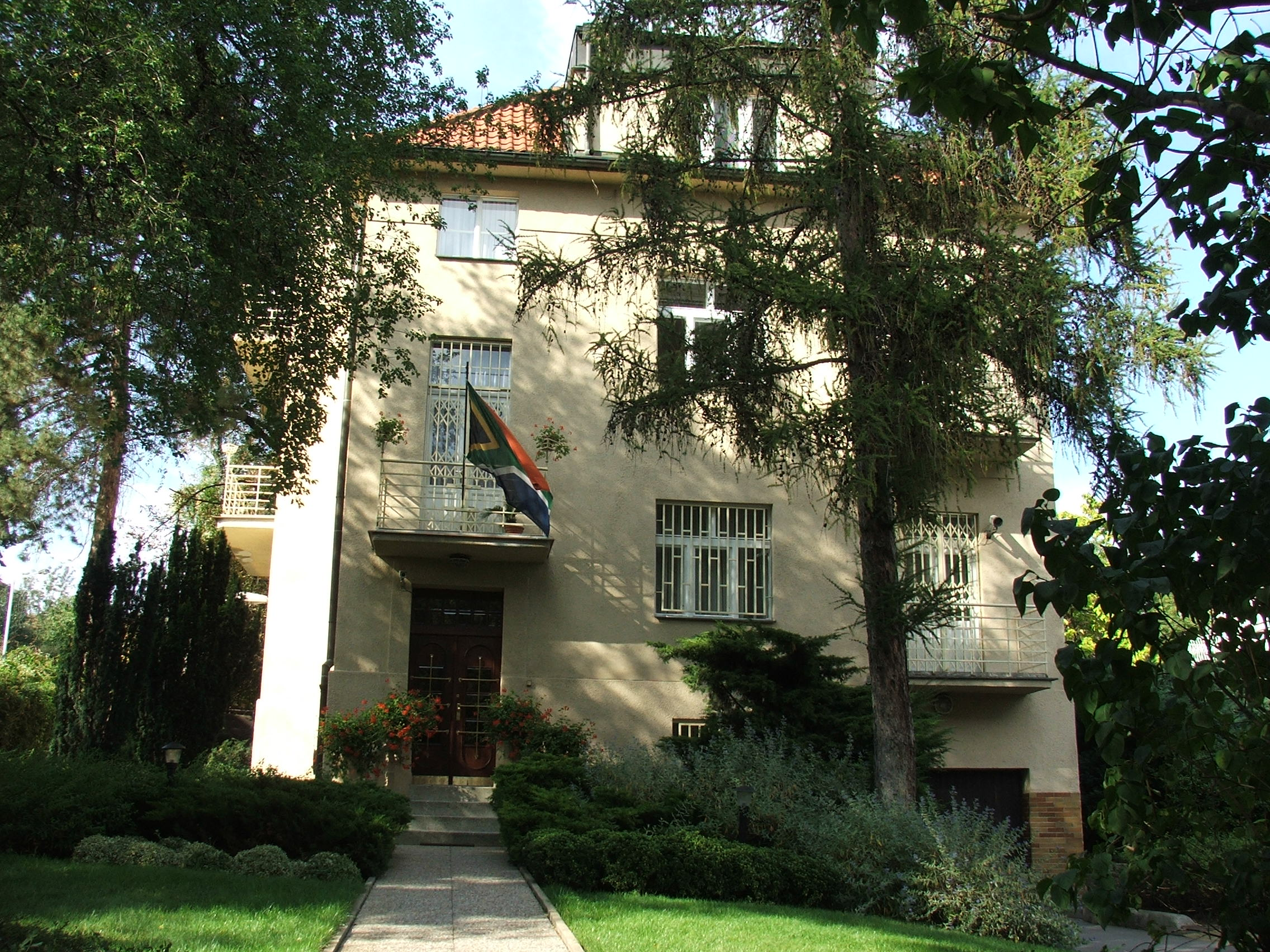 Embassy of the Republic of South Africa in Prague - Vinohrady, Czechia.